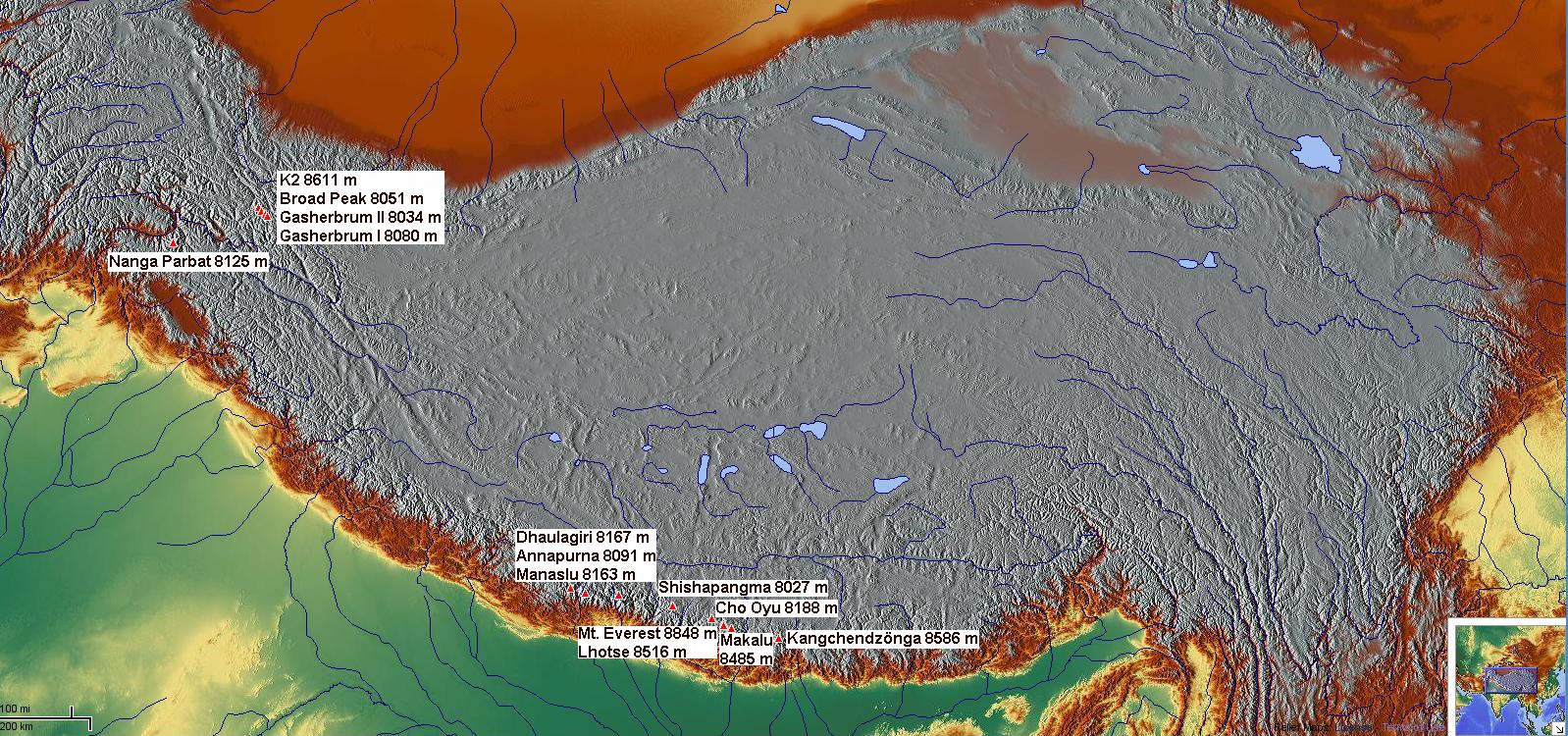 Map showing where the eight-thousanders are situated. (Source for heights and writing is the German wikiproject in 2008 December. Names in clusters are assigned from left to right. Because Mount Everest and Lhotse are so close to each other, they are shown with the same symbol.)